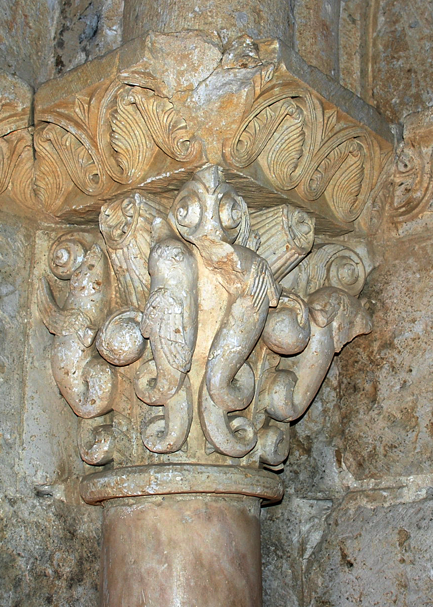 Romanesque capital of Monastery of Saint Zoilo in Carrión de los Condes (Palencia, Castile and León).